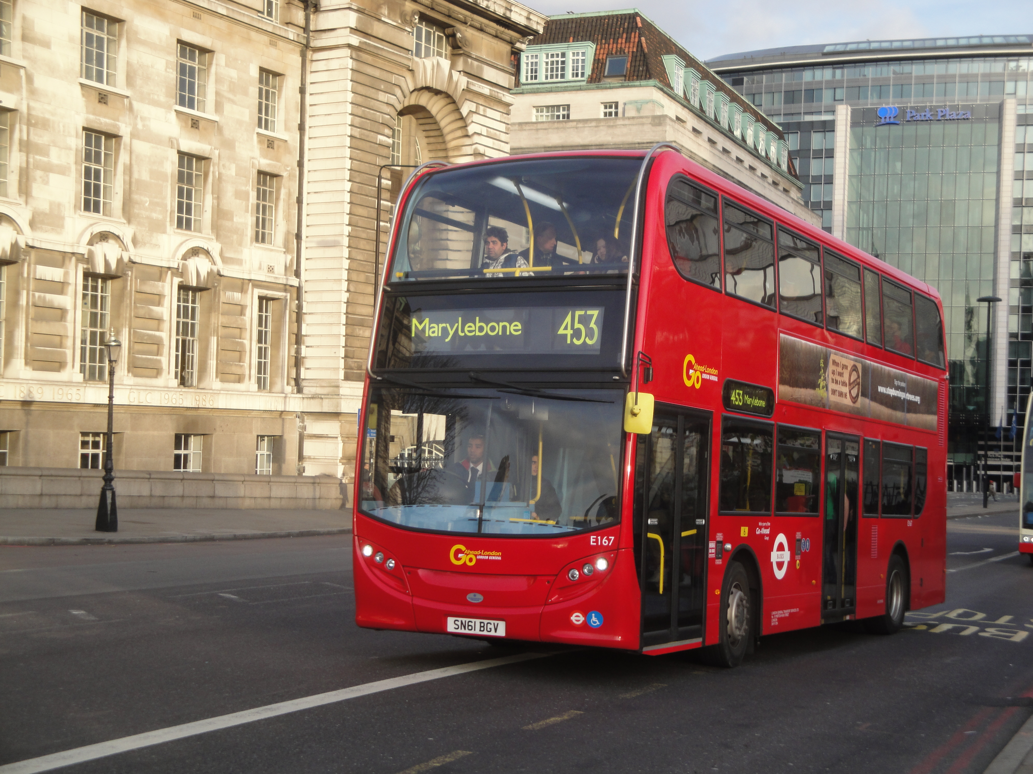 London General E167 (SN61 BGV), an Alexander Dennis Enviro400, in Westminster Bridge Road, Lambeth (borough), London on route 453.